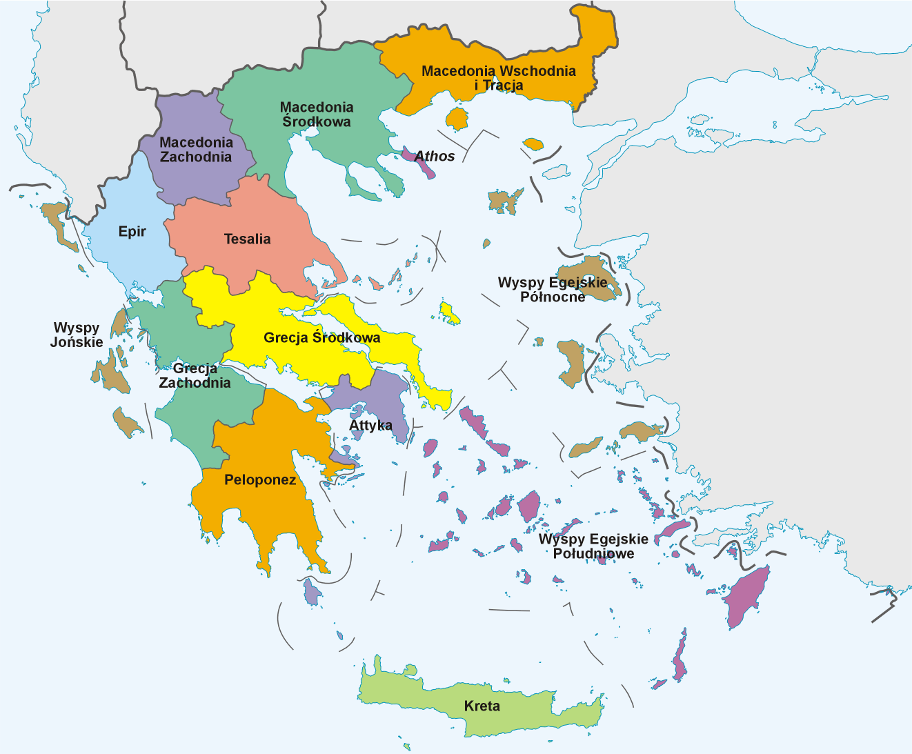 Administrative divisions of Greece – regions (2nd level administrative divisions)